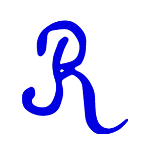 blue under glaze, used amongst others 1757–1795